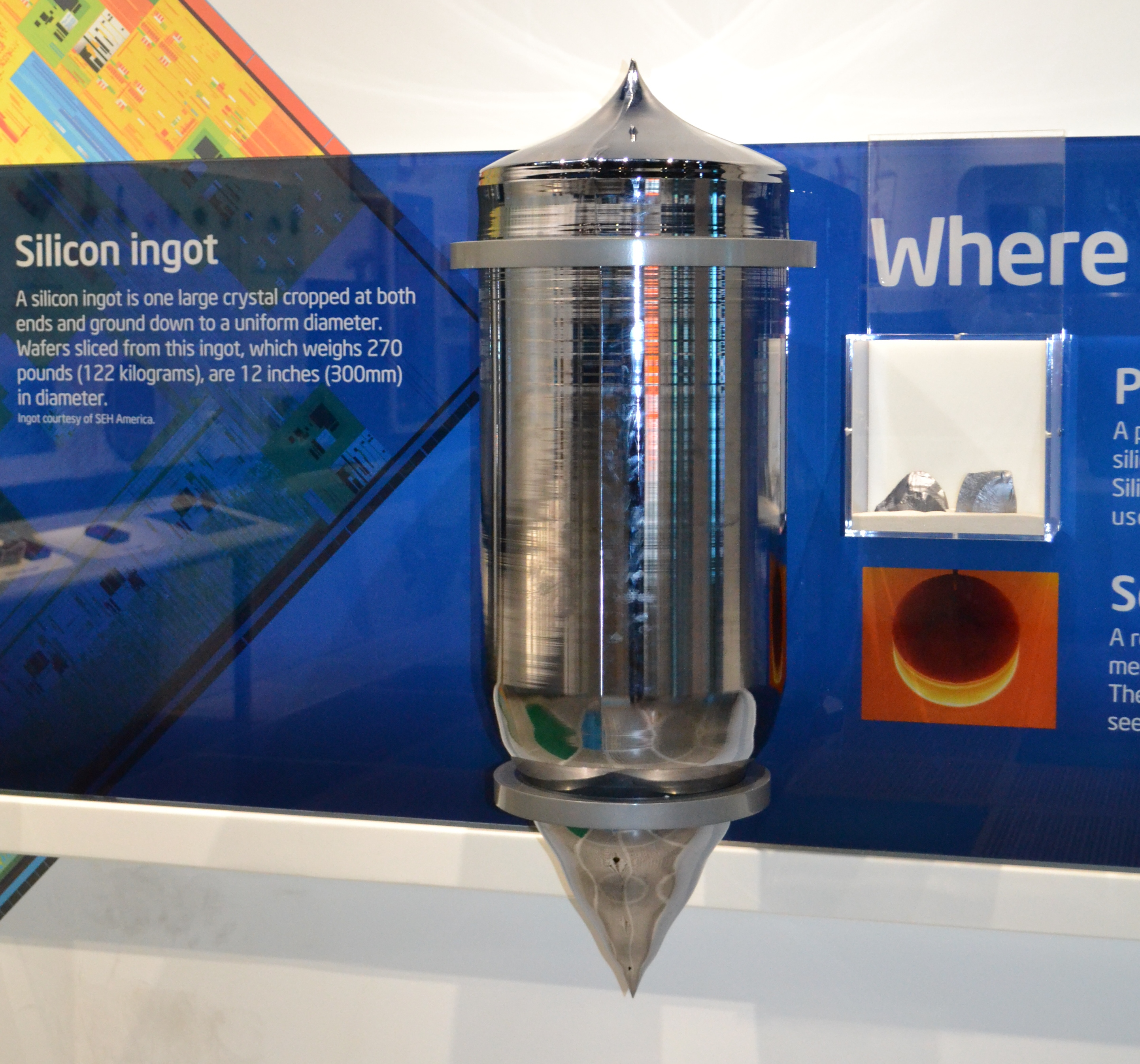 Silicon ingot at Intel Museum